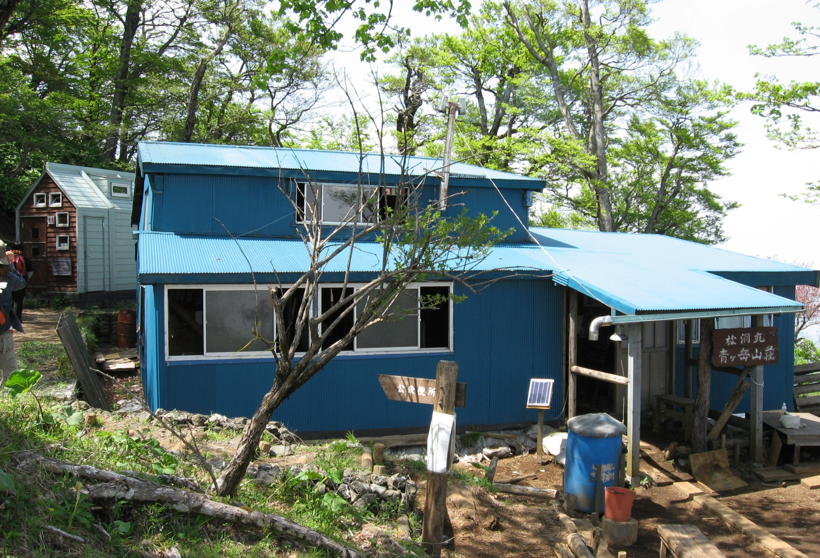 Aogatake Sanso hut on the top of Mount Hinokiboramaru in the Tanzawa Mountains, Japan